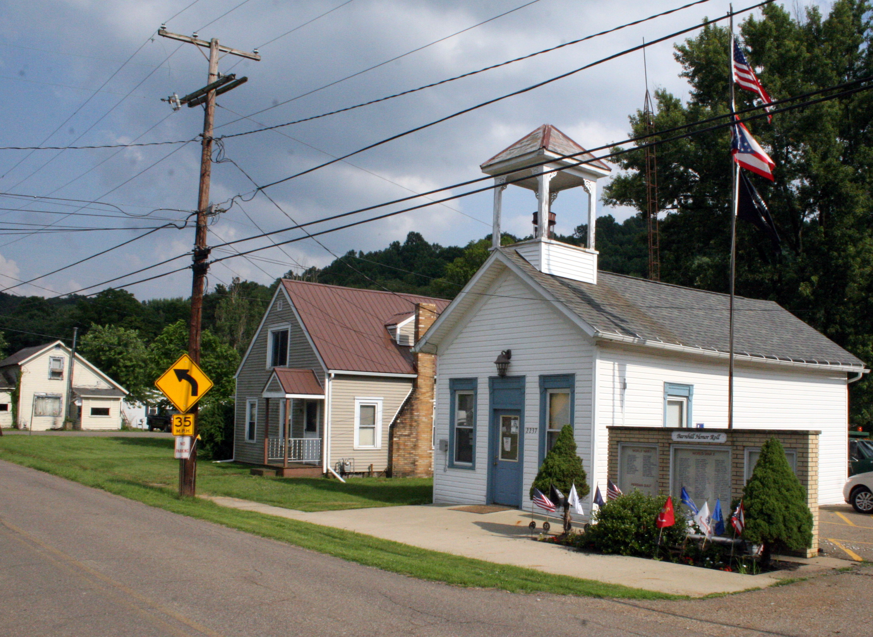 Town hall of Barnhill, Ohio